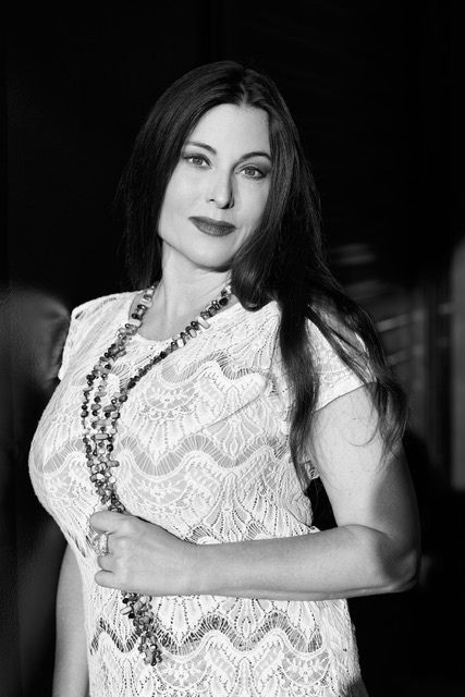 Picture of Daniela Elger.